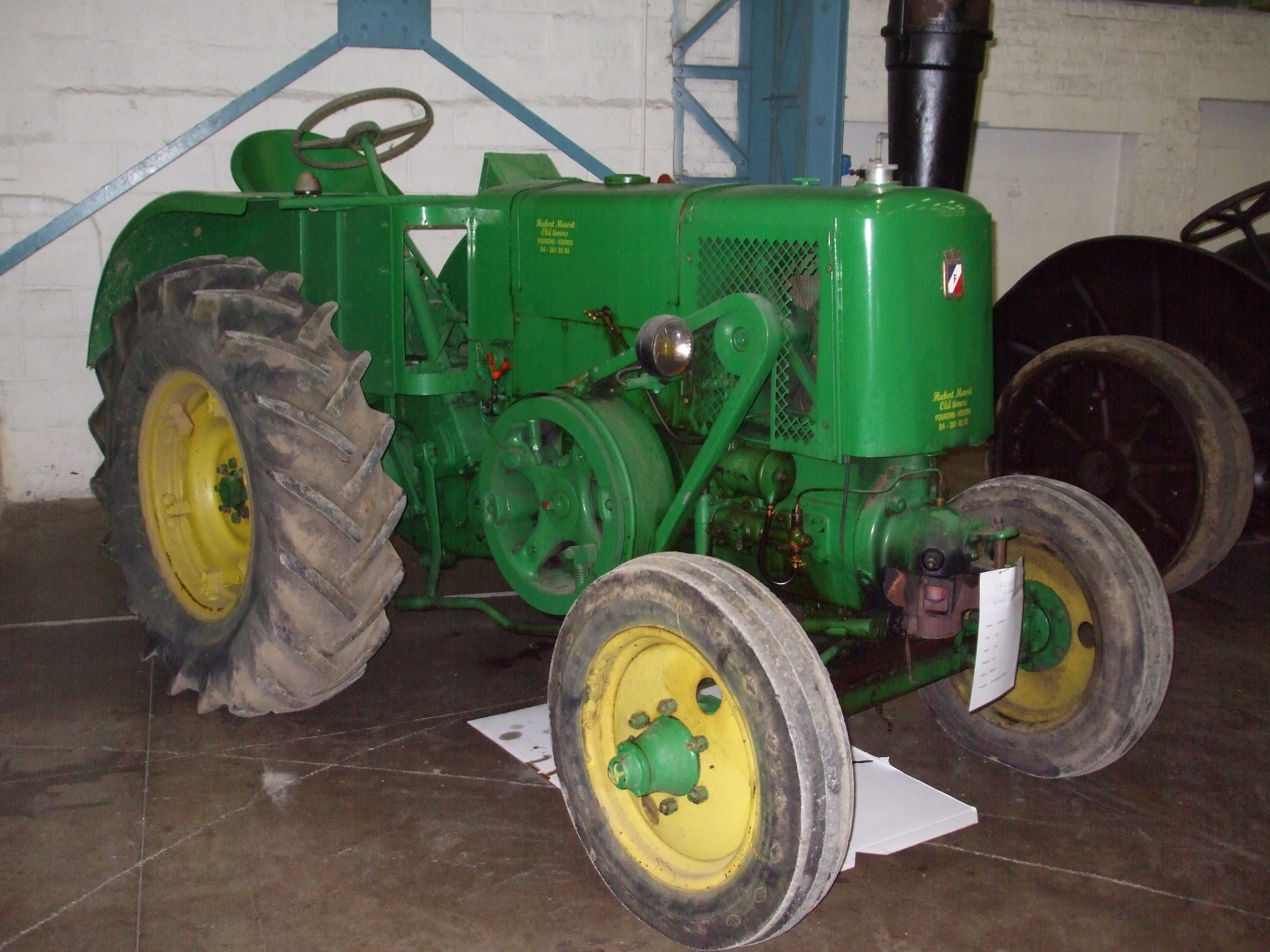 Vierzon 302, build 1954, 33 KW (45 HP)